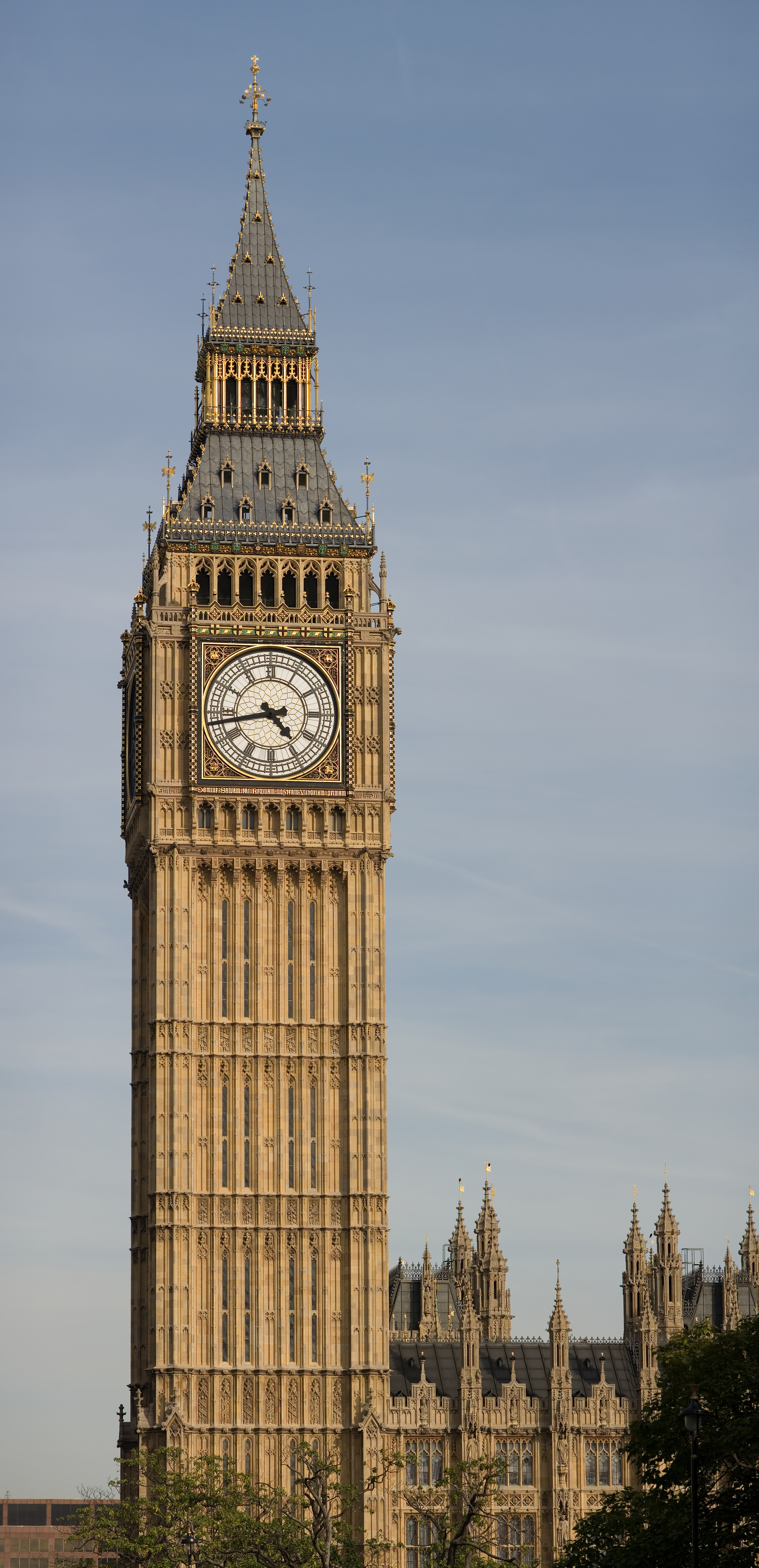 The Clock Tower of the Palace of Westminster, colloquially known as "Big Ben", in Westminster, London, England.